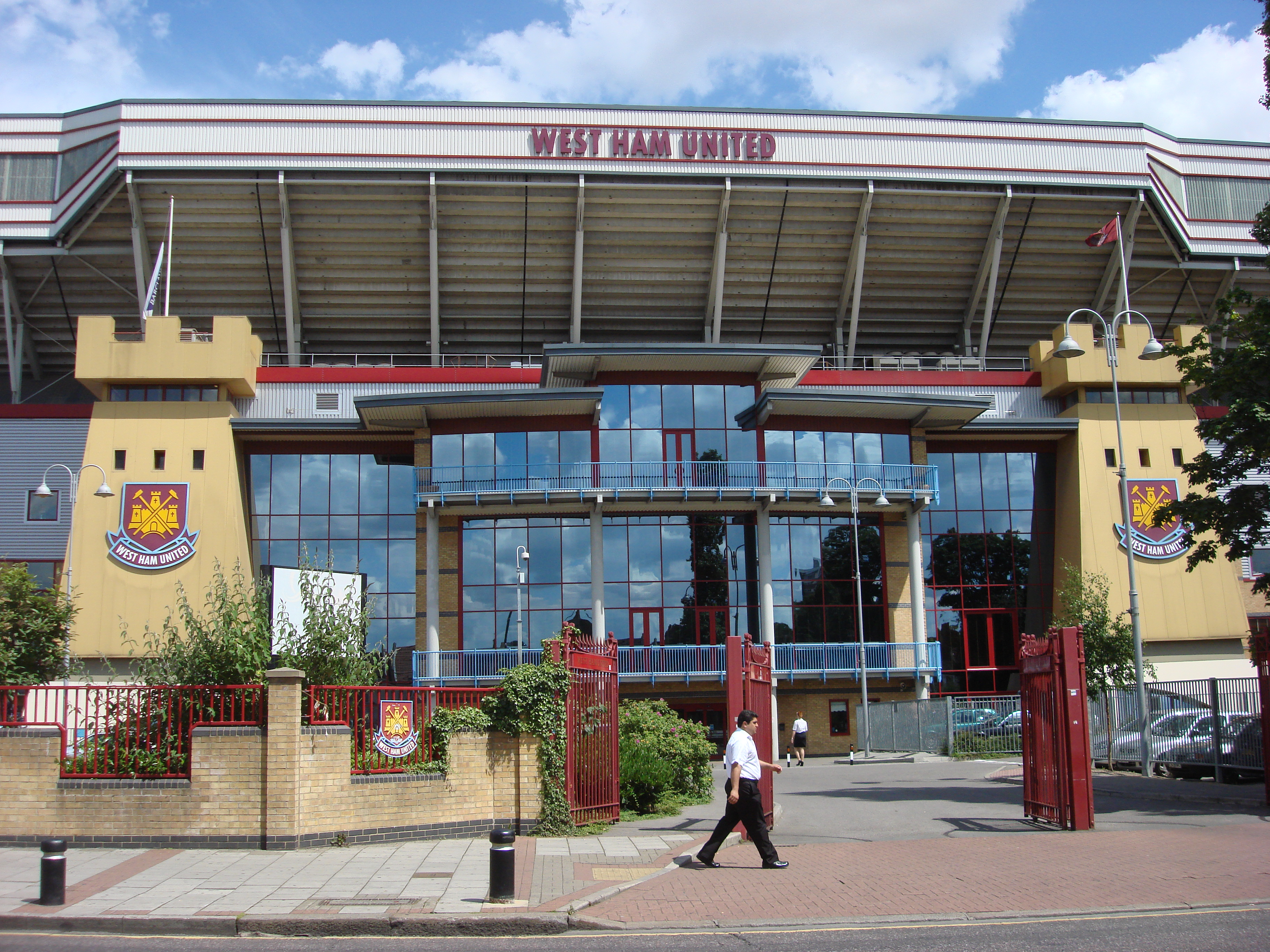 Main entrance and 'twin towers' of West Ham United's Dr Marten's stand, Boleyn Ground, Upton Park, London, taken from Green Street.